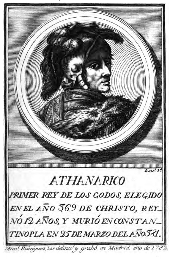 A poster of ATANARICO, Visigoth king, n° 1 in the chronological order of the book digitalized by Google since the bookshop in the University of Oxford.